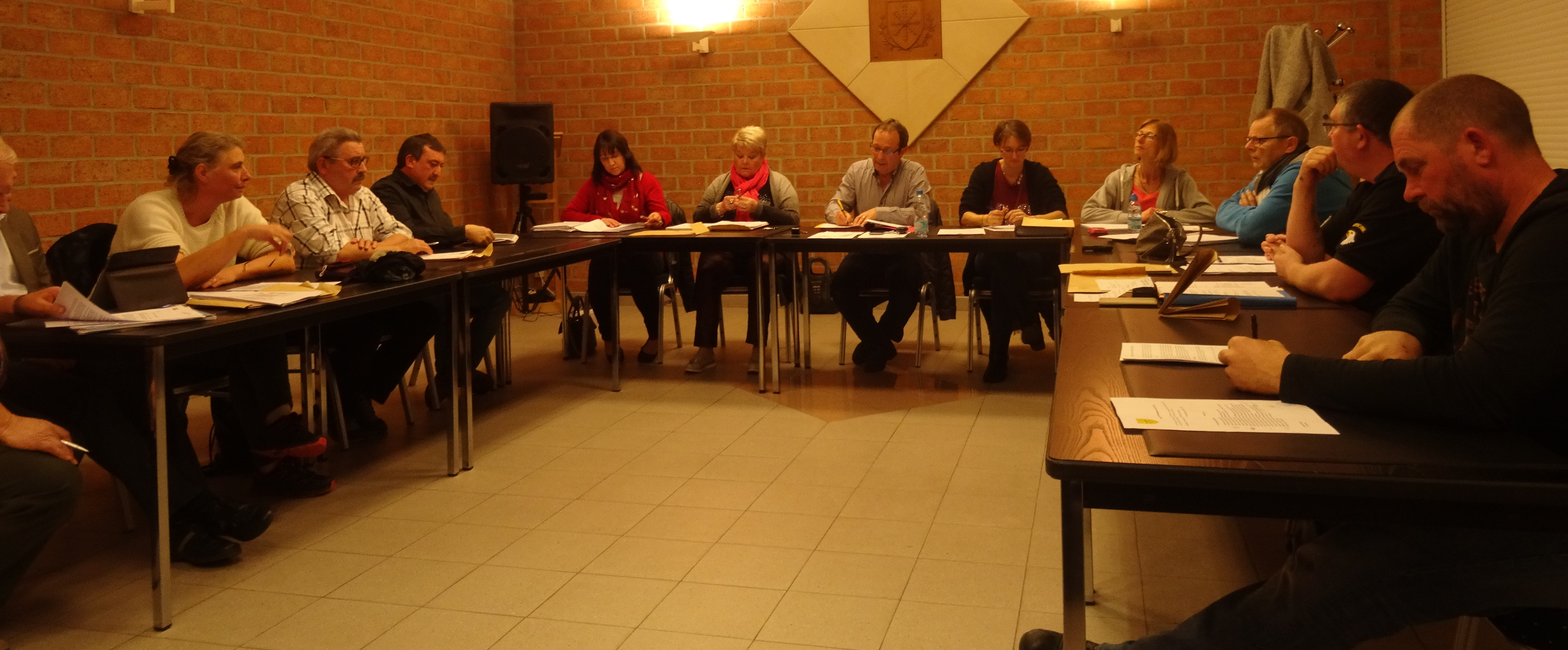 Depicted place: Mairie de Wandignies-Hamage Depicted person: Jean-Michel Sieczkarek – French politician